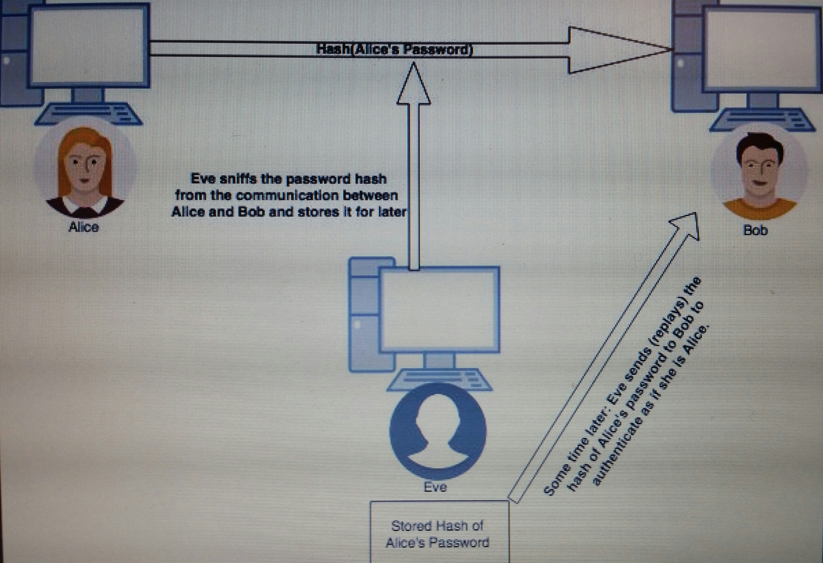 replay attack